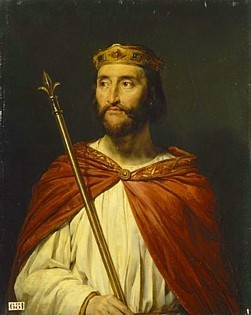 This painting belongs to the Portraits of Kings of France, a series of portraits commissioned between 1837 and 1838 by Louis Philippe I and painted by various artists for the Musée historique de Versailles.